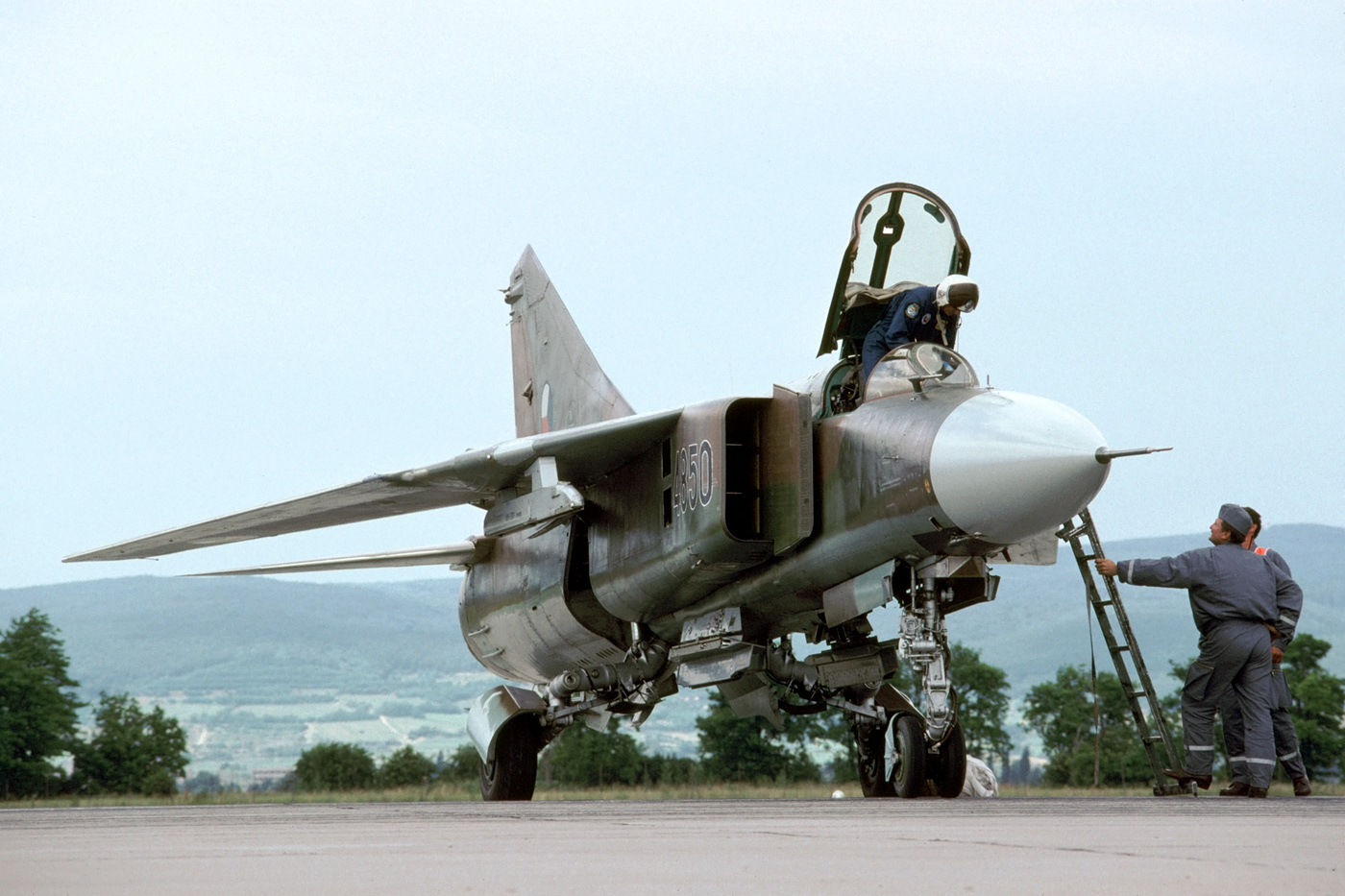 A MiG-23ML 'Flogger-G' shortly after arrival at Bratislava Airport for the air show in June 1997. The ML-version was retired in 1998.